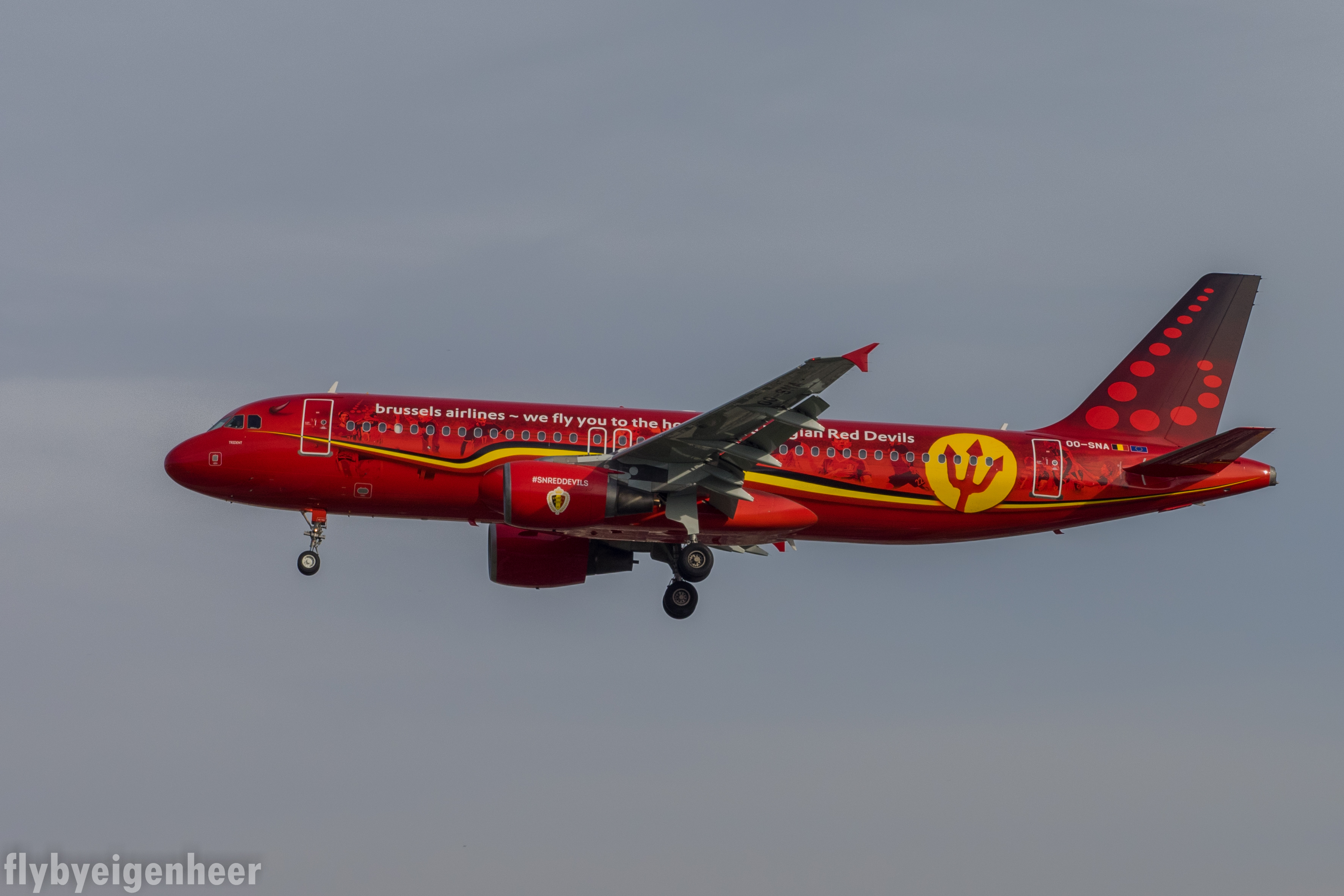 Geneva International Airport